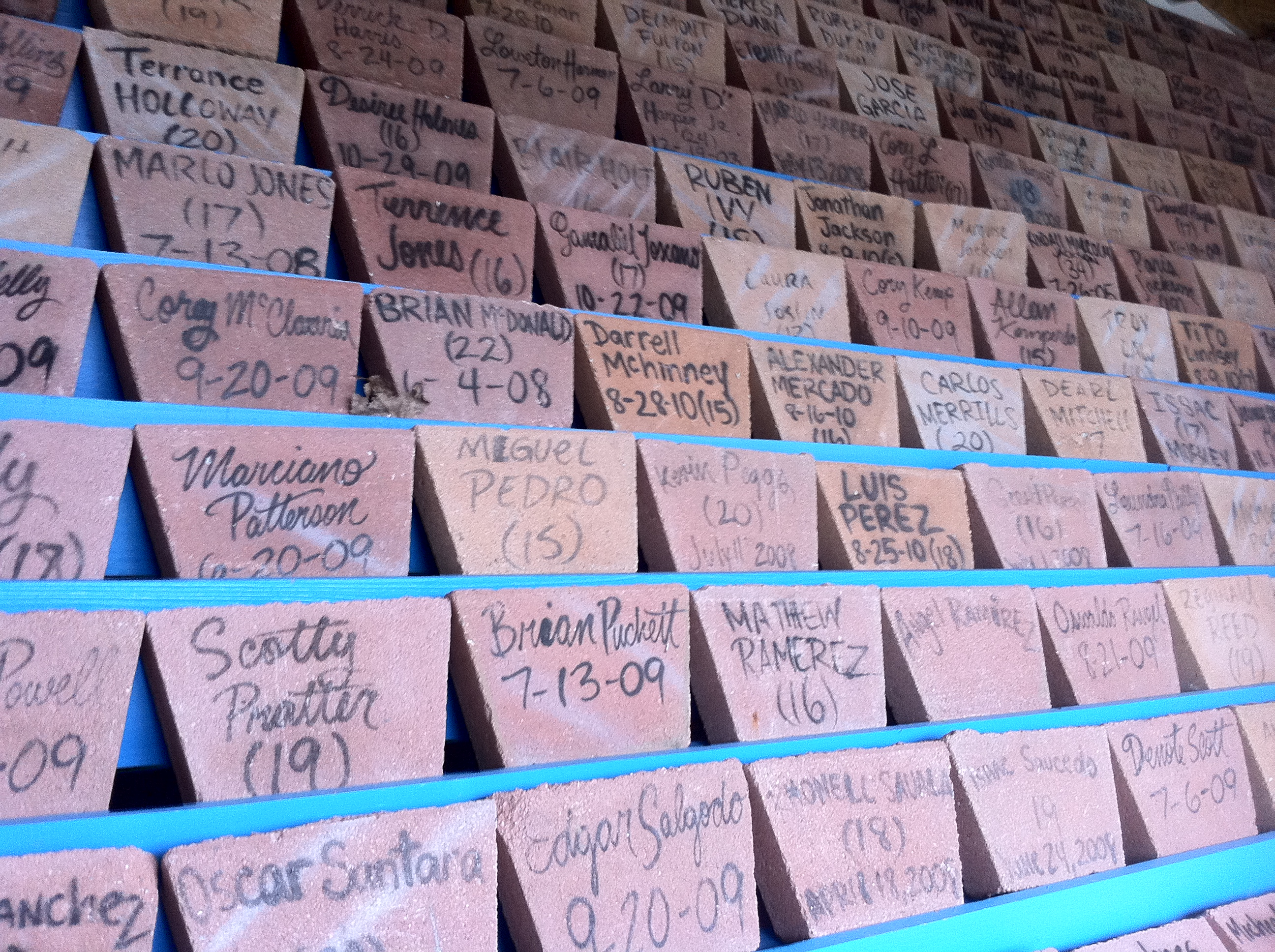 Kids off the Block Stone Markers with names